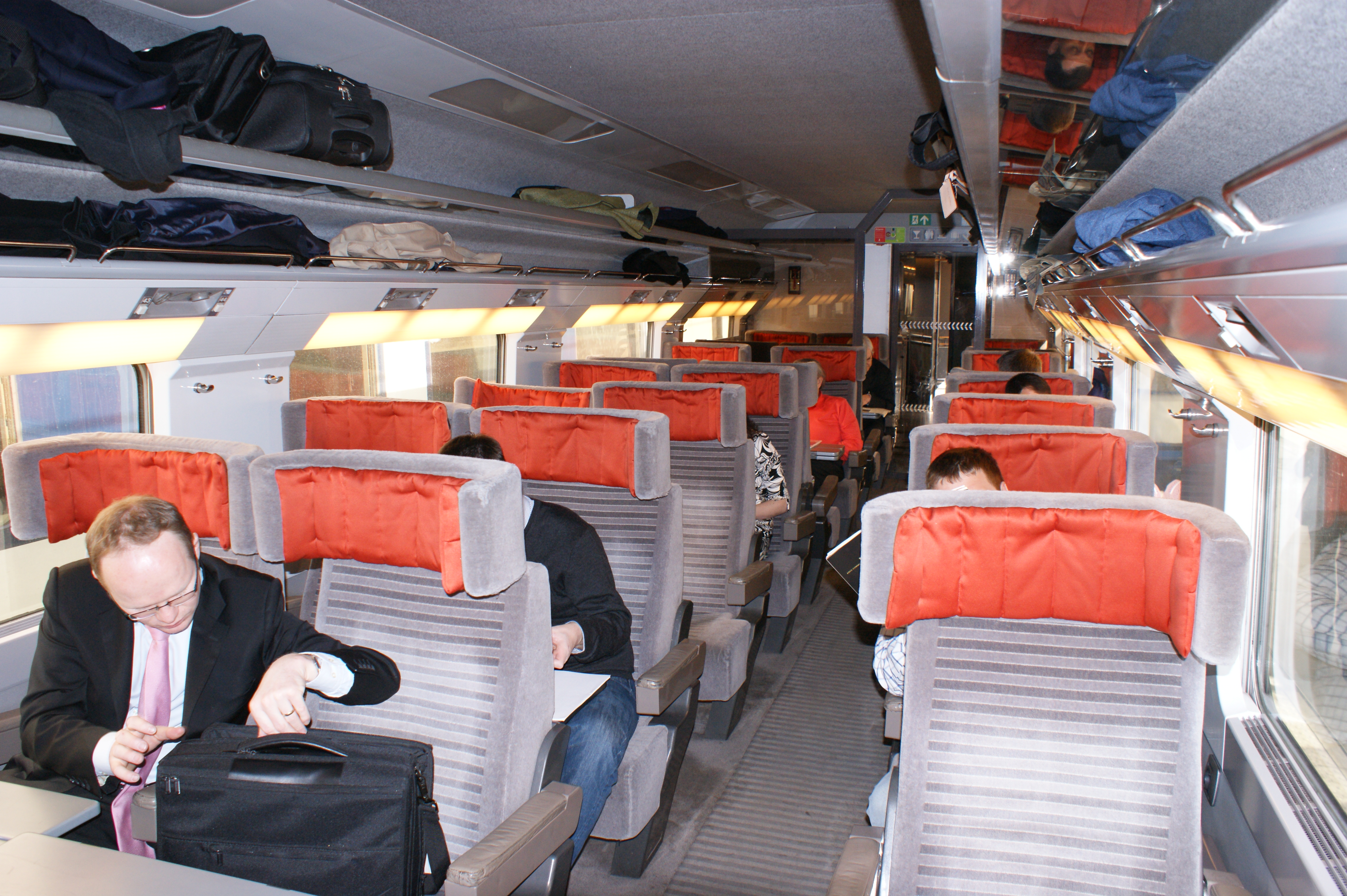 Eurostar Three Capitals 1st Class coach interior. 4/09.